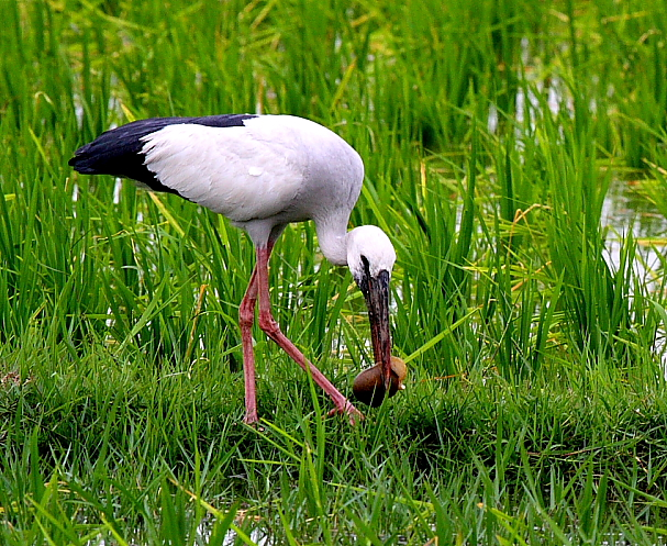 An Asian Openbill stork Asnastomus oscitans with a Pila globosa picked up from a flooded rice-paddy field in Mainpuri district, Uttar Pradesh, India. The stork is suspected to have spread its range with the spread of rice primarily due to the availability of the snail.